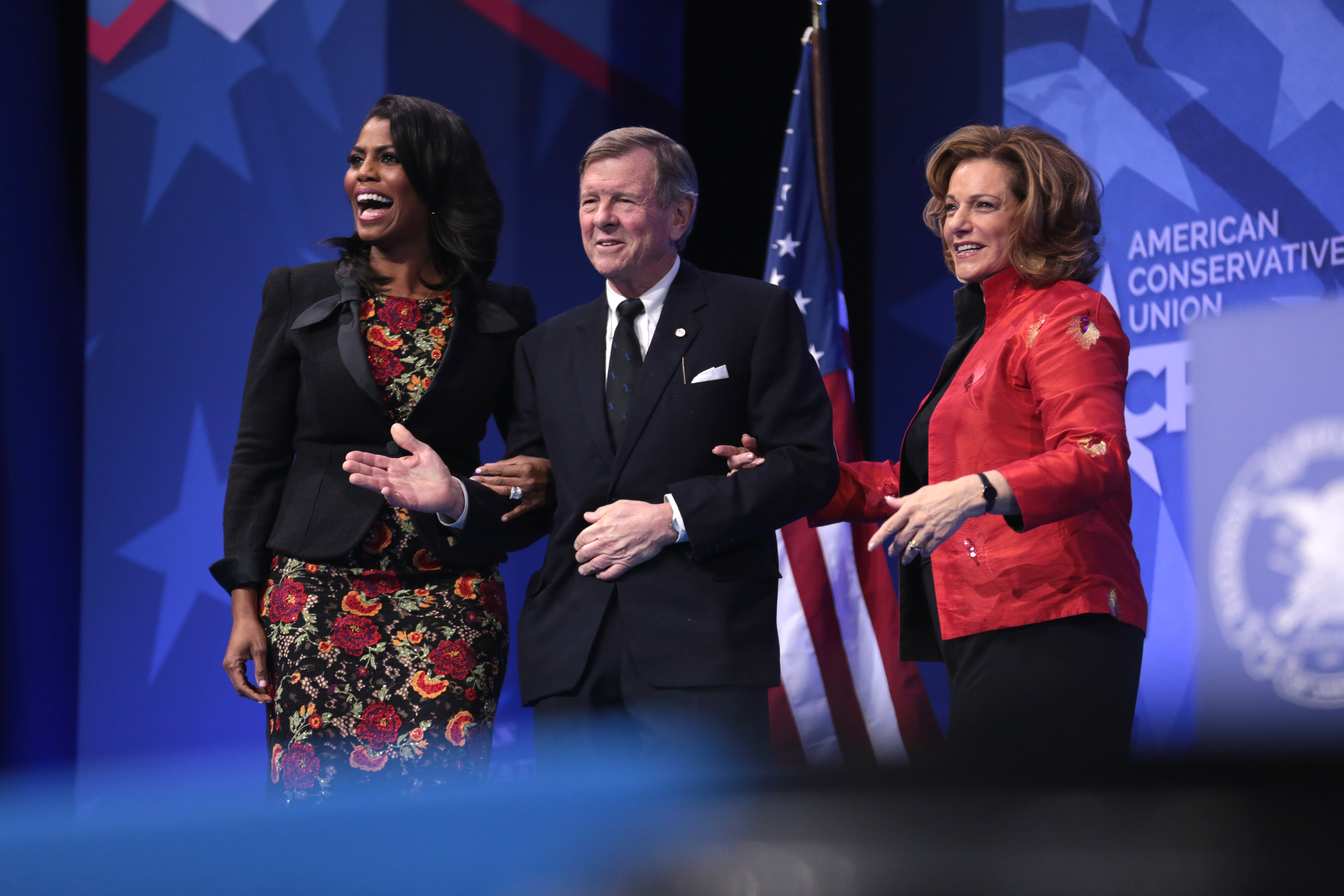 Omarosa Manigault, Alan R. McFarland and KT McFarland speaking at the 2017 Conservative Political Action Conference (CPAC) in National Harbor, Maryland.